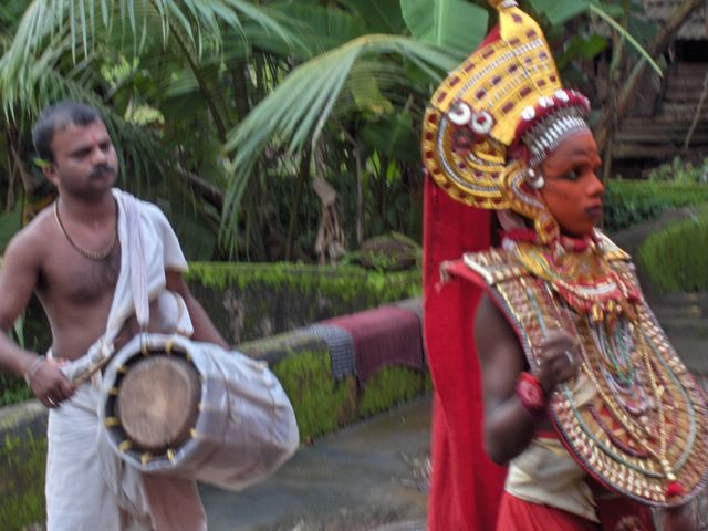 Photo of Theyyam by Sureshan Karichery.